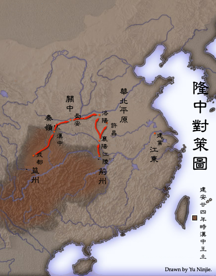 The Longzhong Plan was the grand strategy proposed by Zhuge Liang for Liu Bei to conquer north China. By summer 219 Liu Bei controlled the provinces of Yi and Jing, the prerequisites for carrying out the plan. Shown in this map is the two-pronged offensive originally envisaged by Zhuge Liang. The right wing of the offensive was led by Guan Yu in autumn 219. After Guan Yu's defeat and the loss of Jing province, the left wing of the offensive was carried out in modified form by Zhuge Liang as the Northern Expeditions between 227 and 234.